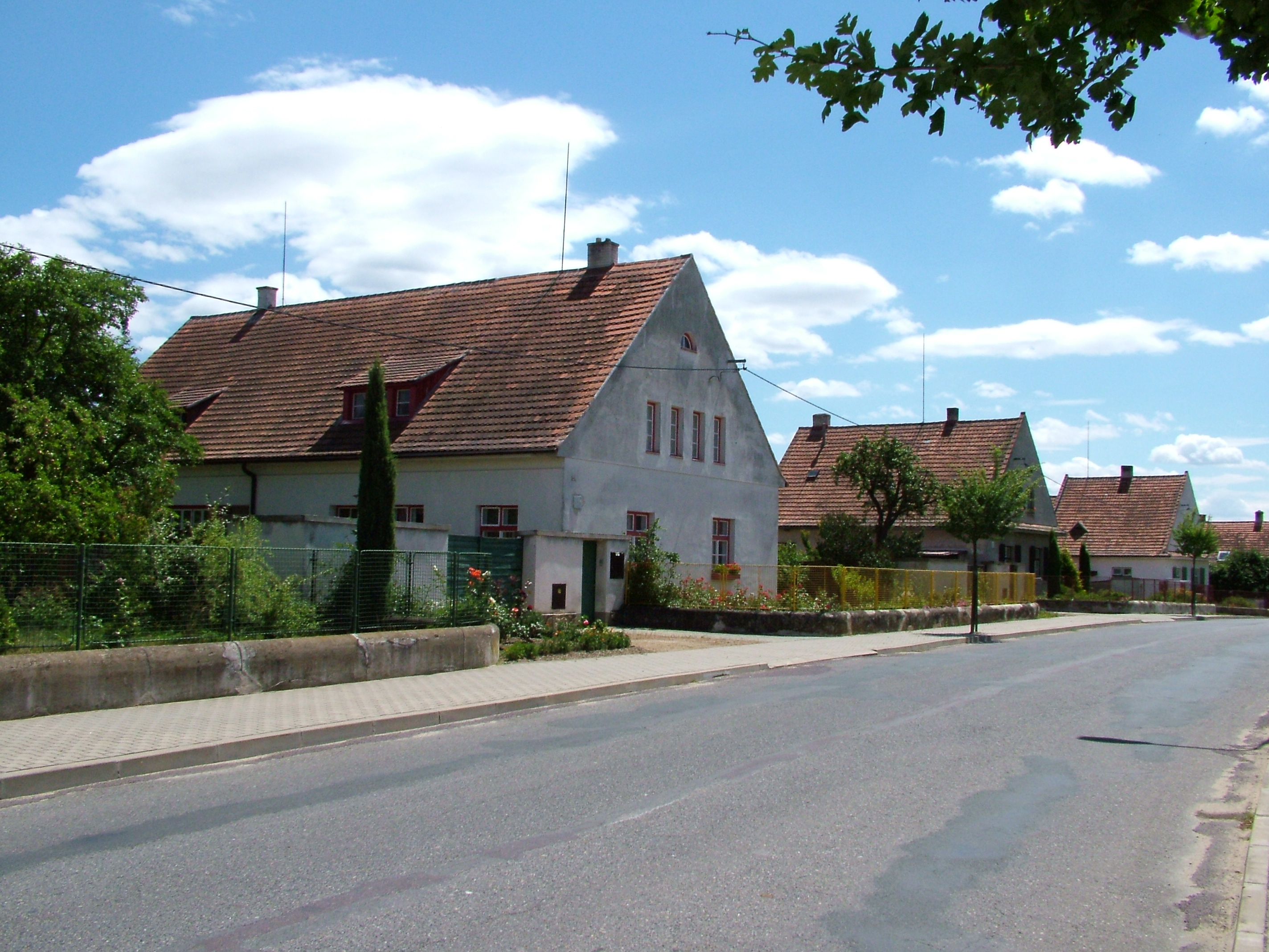 Street in Bítov village.